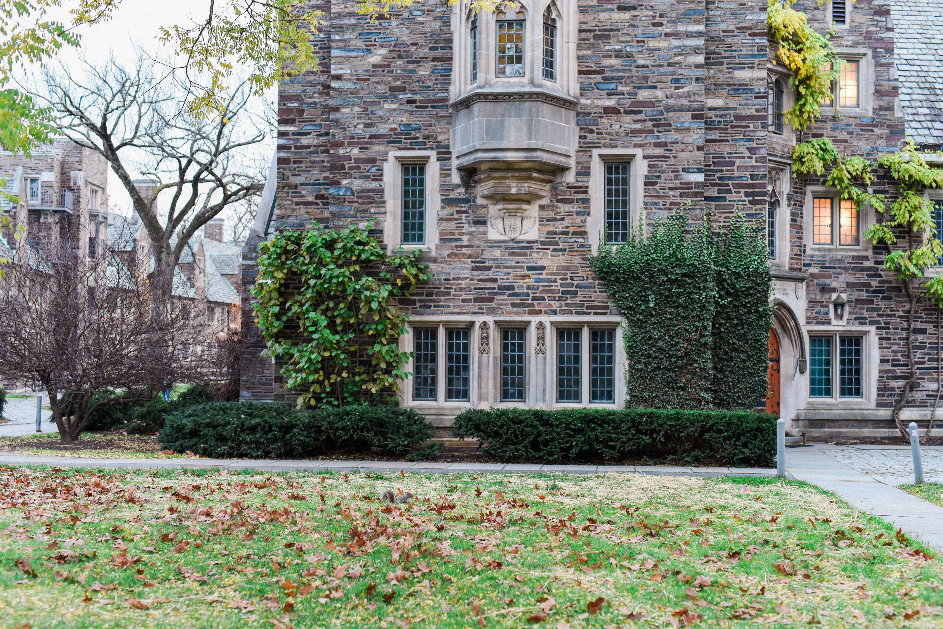 The Princeton campus, December 2016.